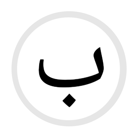 HS Letter (arabic alphabet)